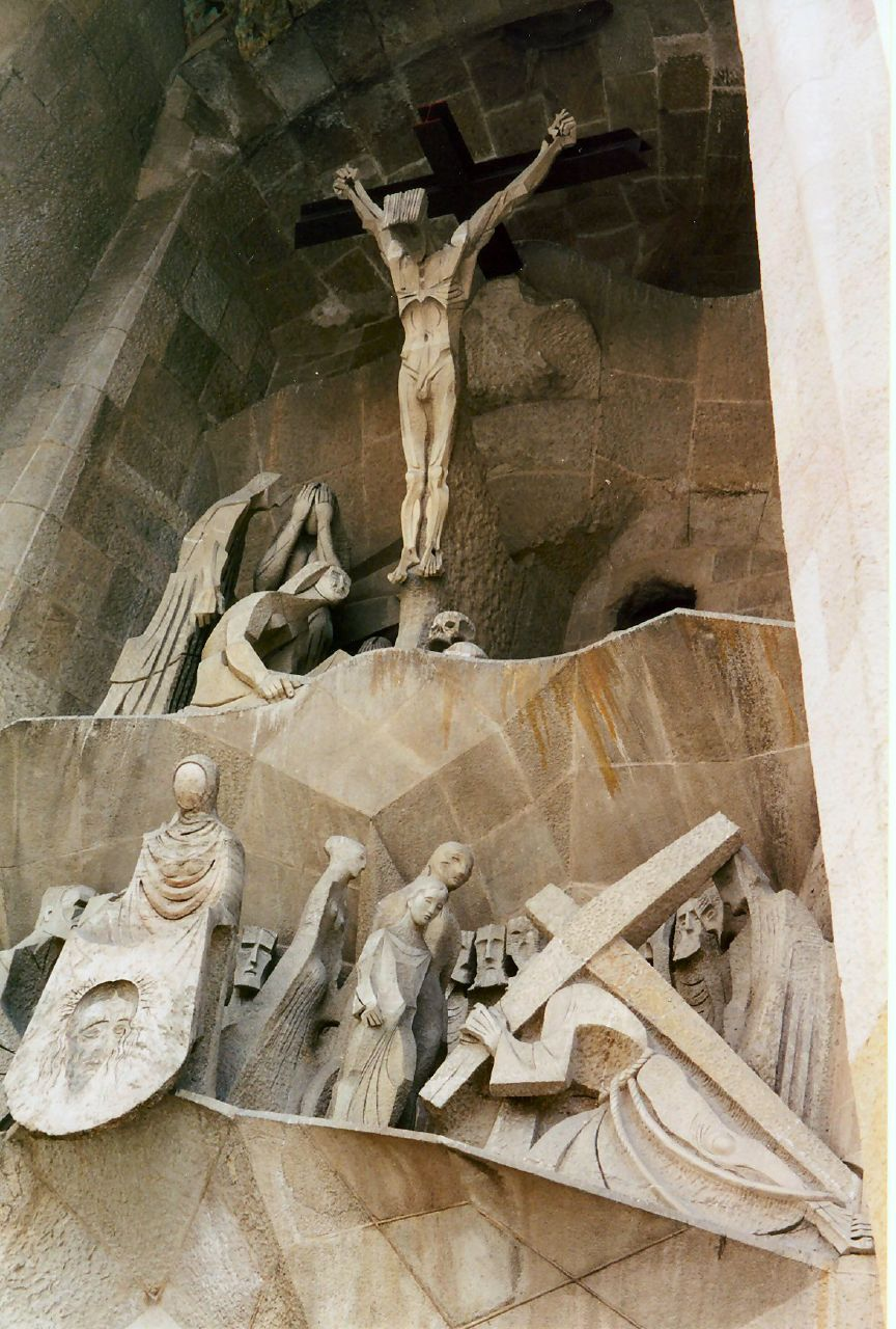 This is the upper part of the Facade of the Passion by Josep Maria Subirachs. From Sagrada Família, an unfinished church in the Spanish city of Barcelona.